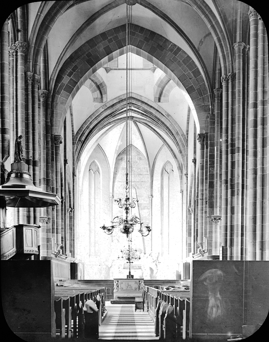 Thomas-Kirche, Strasbourg, France, 1903. [Thomas-kirche. Strassburg; Series 1903]. Brooklyn Museum Archives, Goodyear Archival Collection (S03_06_01_003 image 950). Help us map this image by using Suggestify to suggest a location for it.